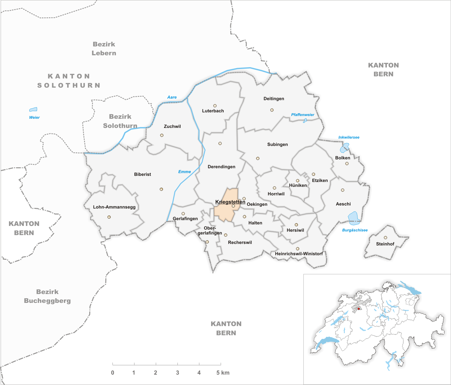 Municipality Kriegstetten